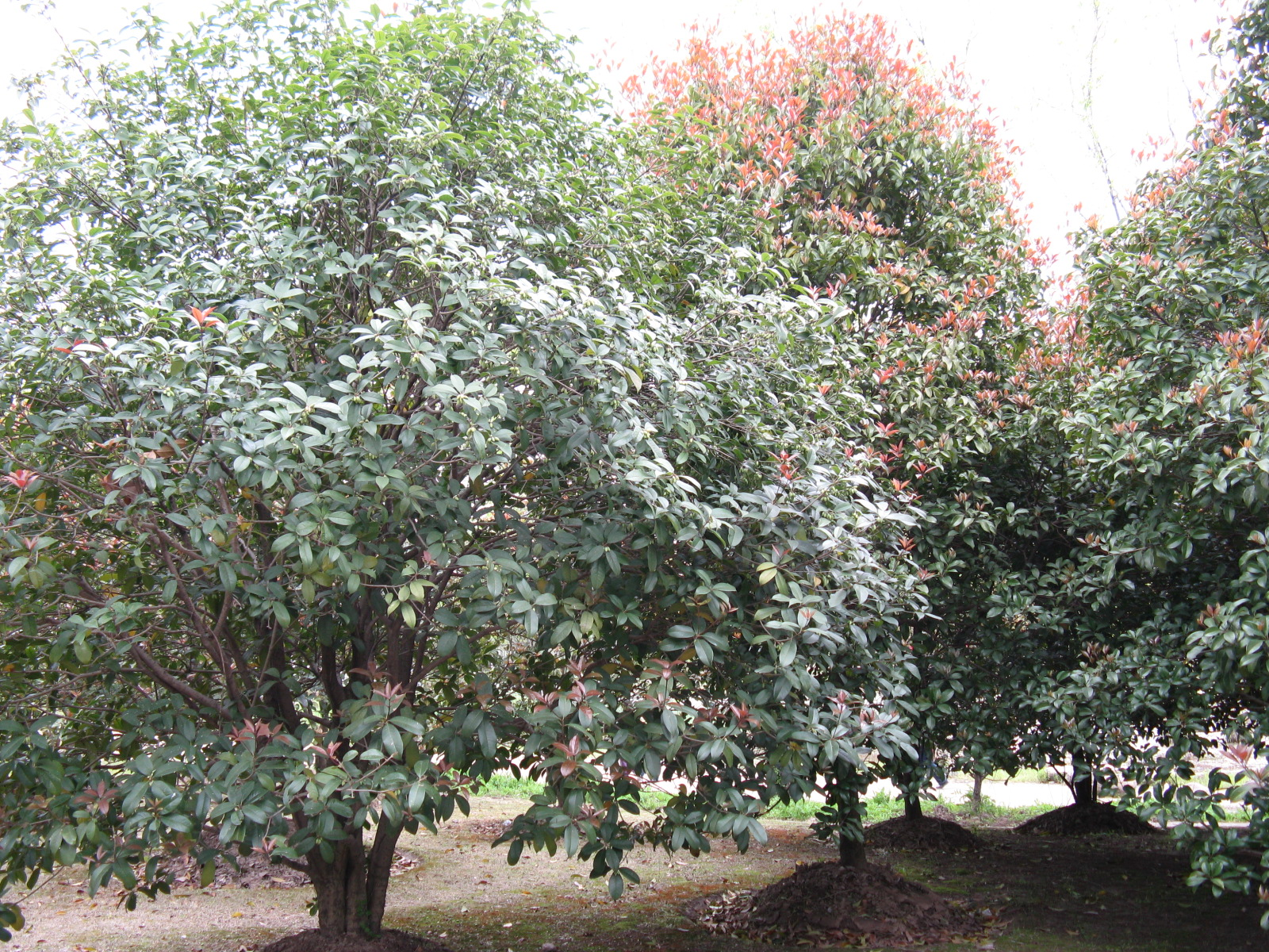 Osmanthus fragrans(Thunb.)Lour.